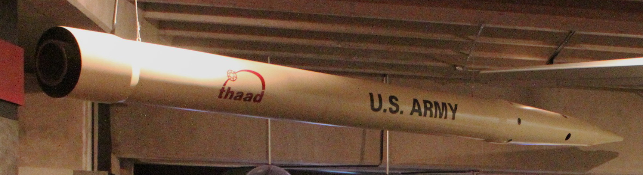 Terminal High Altitude Area Defense (THAAD) interceptor missile from an exhibit at the USSRC Military exhibit north